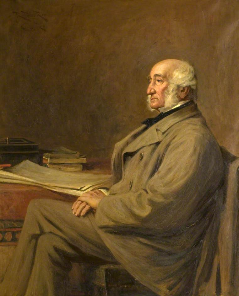 Sir John Ogilvy was Life Director of Dundee Lunatic Asylum and President of the Board of Directors at Dundee Royal Infirmary (DRI). He was the ninth Baronet Ogilvy of Inverquharity and was the Liberal Member of Parliament for Dundee from 1857 to 1874. This painting was commissioned by the board at DRI to hang in their boardroom.